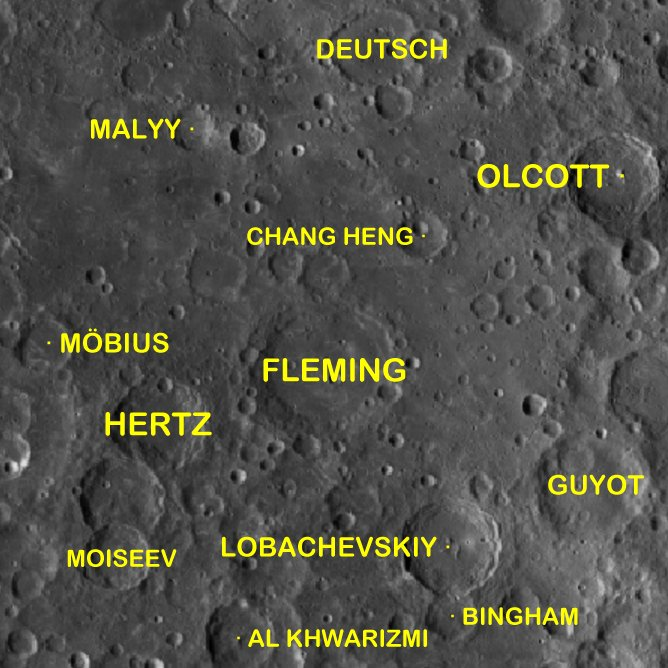 Lunar crater Fleming and vicinity (LROC image). Note that Bingham is incorrectly labeled. It is actually the crater under the letter 'G' in 'BINGHAM'.